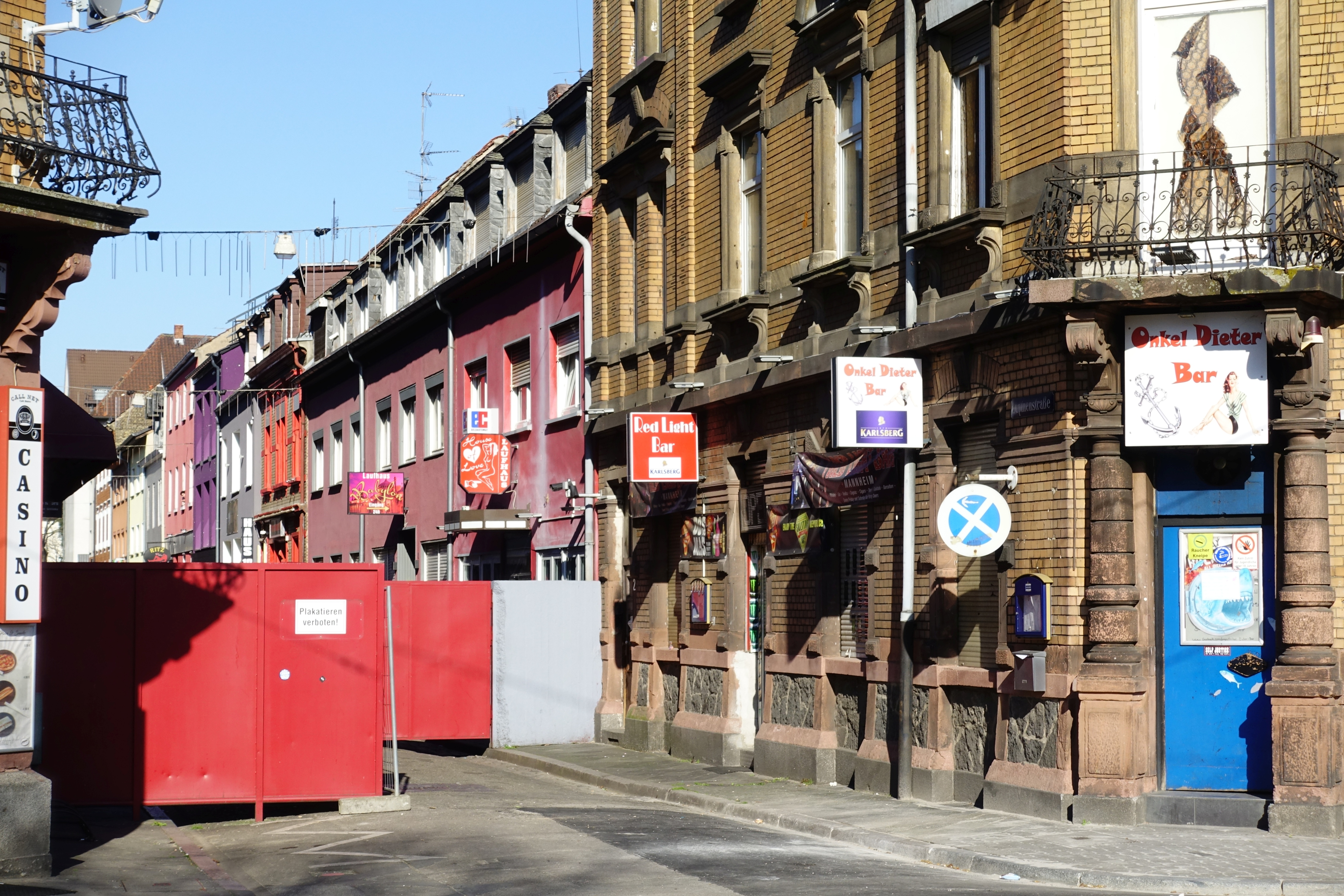 Lupinenstr., Mannheim (Germany), entrance from Mittelstr.